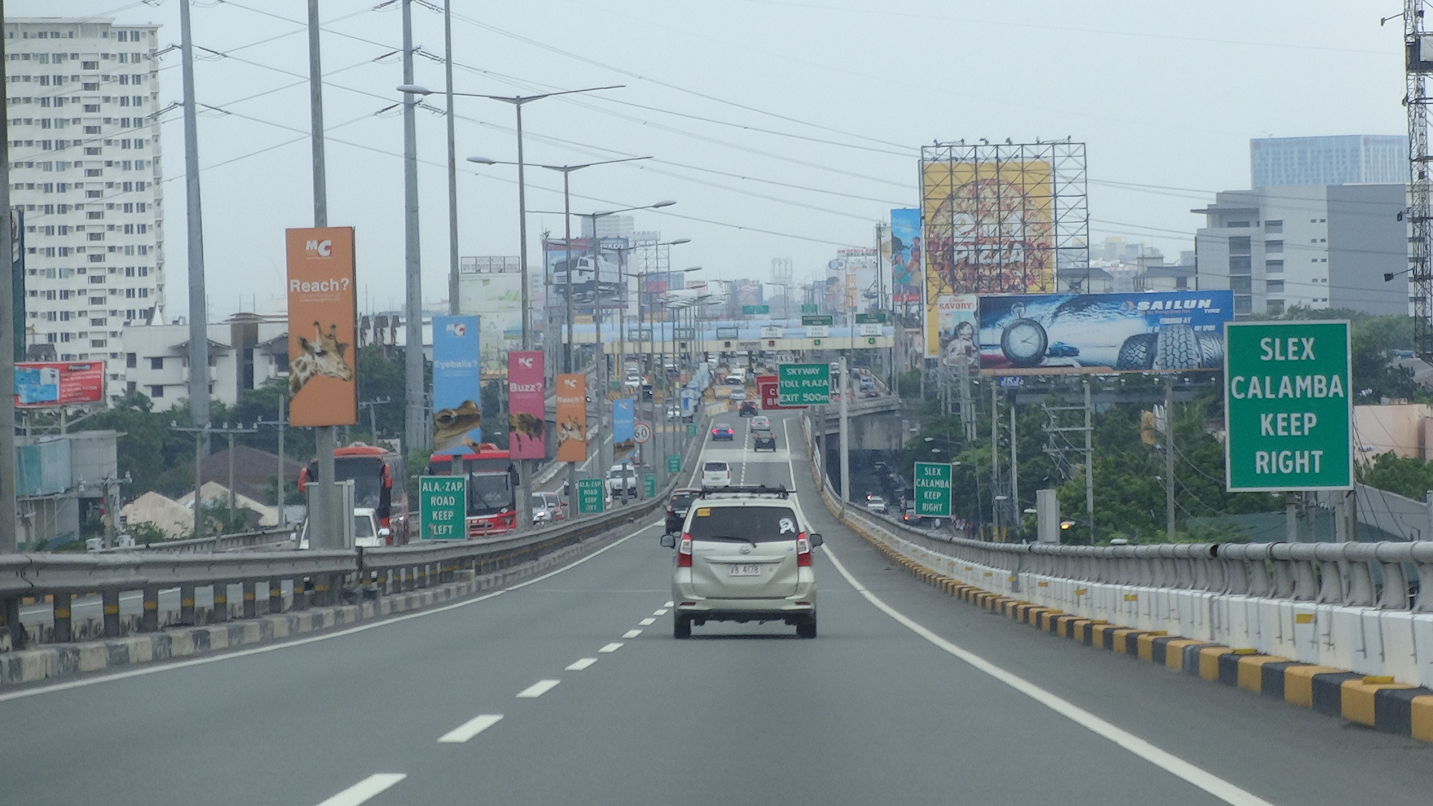 Sucat section of Metro Manila Skyway along South Superhighway, Muntinlupa City